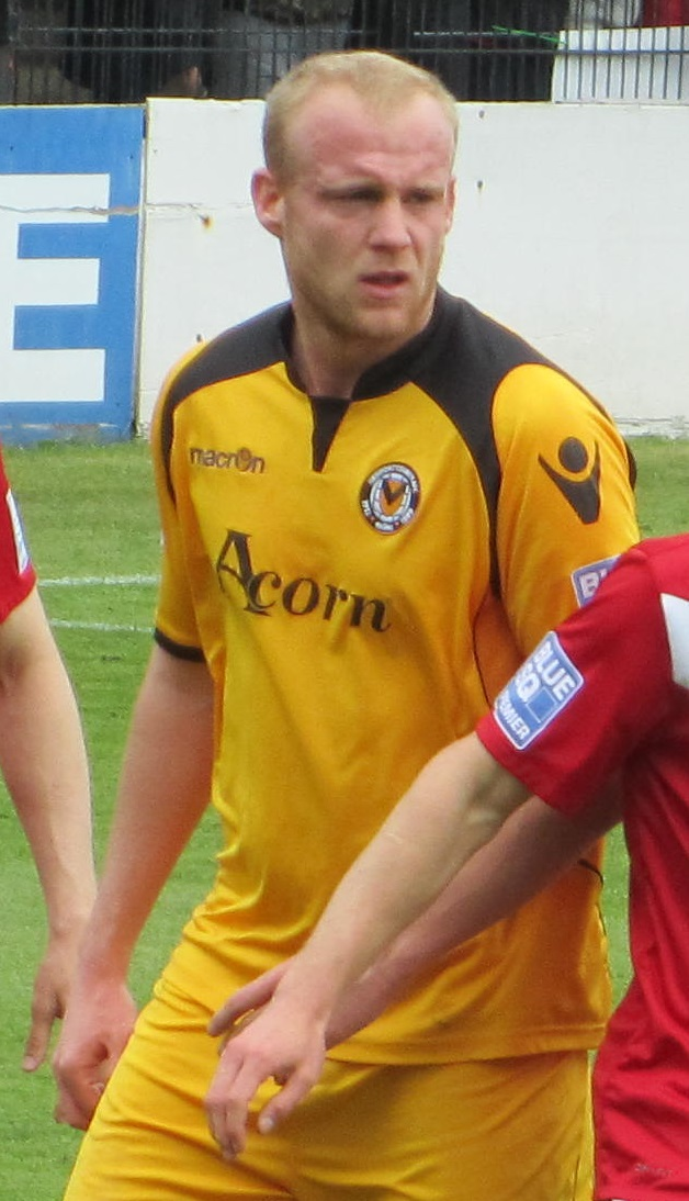 Lee Minshull.